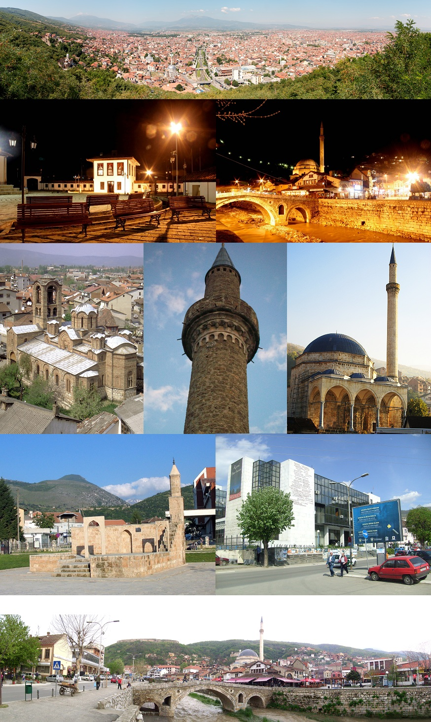 Prizren: Panorama, League of Prizren, Old Stone Bridge, Prizren, Our Lady of Ljeviš, Minaret of Arasta Mosque, Sinan Pasha Mosque, Namazgâh, Municipality Building, Panorama of Prizren river.